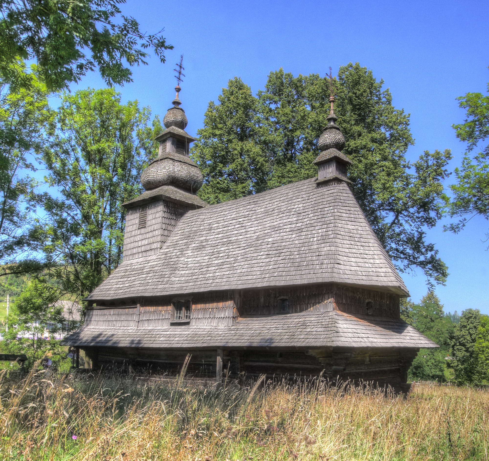 Church of the Holy Spirit, Huklyvyi, Volovets Raion, Zakarpattia Oblast, Ukraine